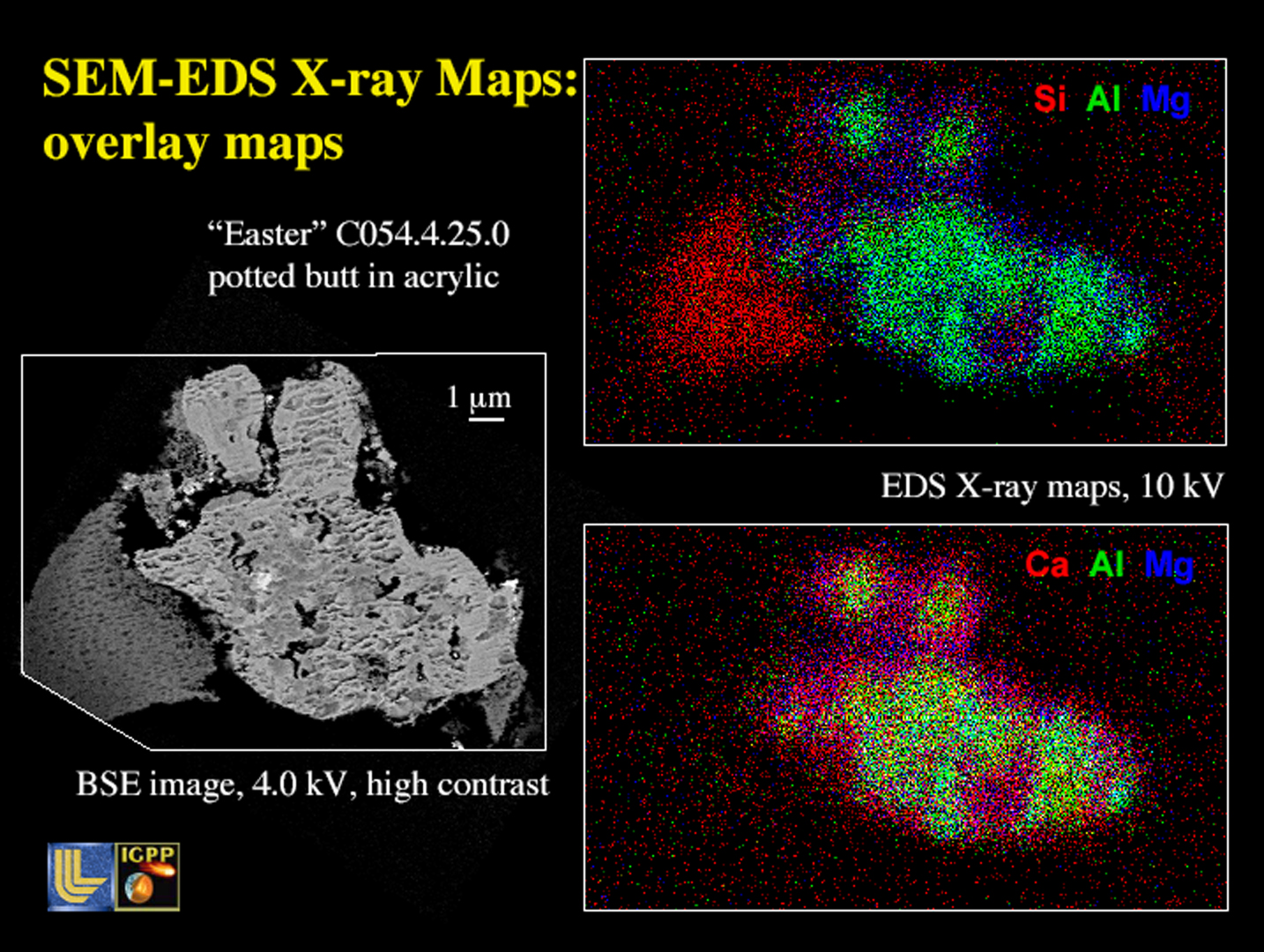 SEM-EDS X-Ray Maps